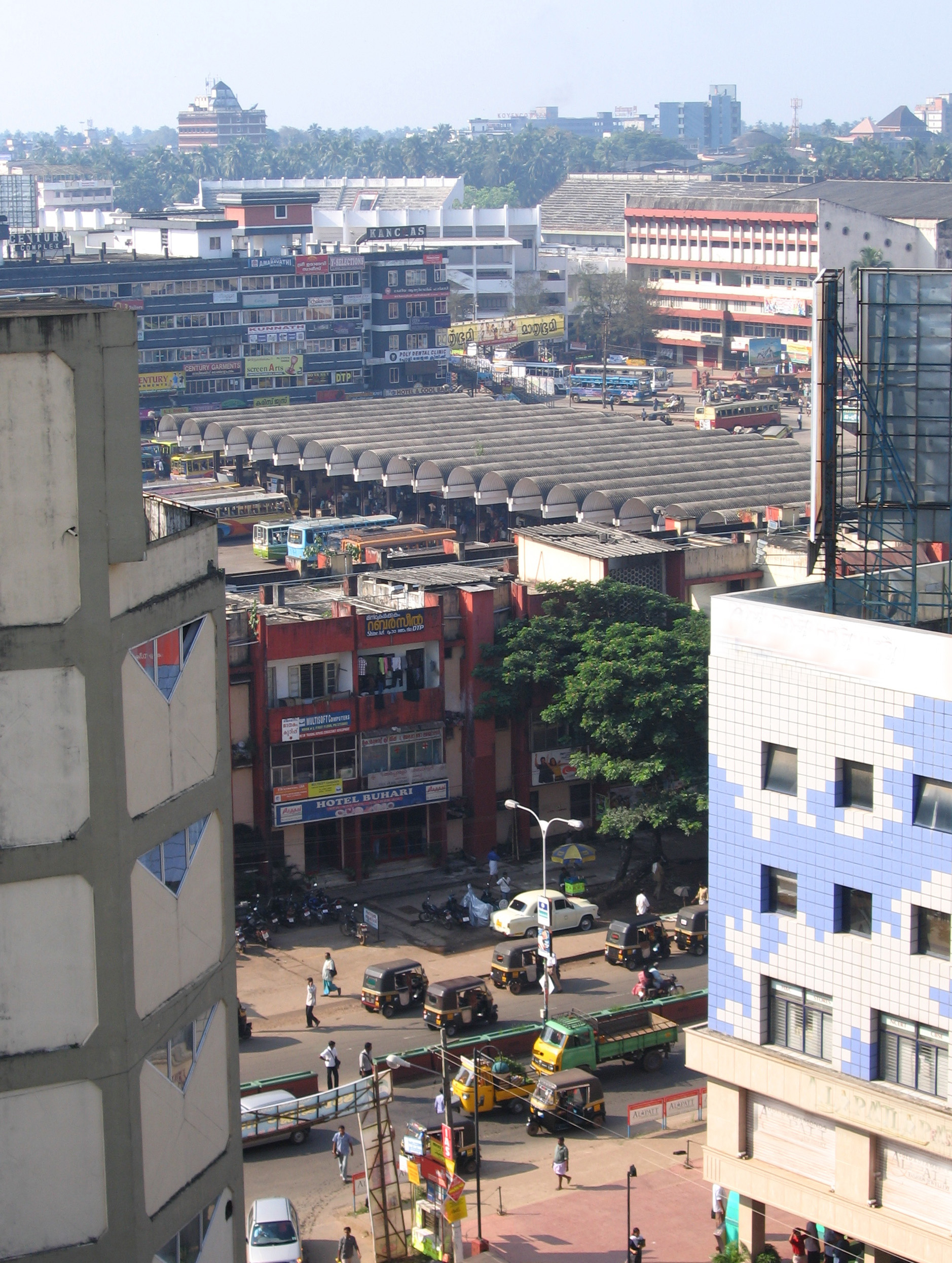 Kozhikode Mavoor Road Bus Stand, a distant view.